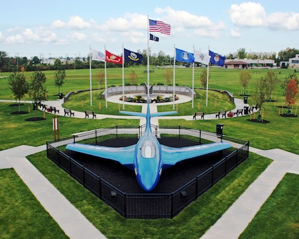 A Grumman F9F-6P Cougar at the Town of Tonawanda Veterans Memorial, New York State (USA). Note: Colours and markings of the aircraft do not represent any historic U.S. Navy aircraft.